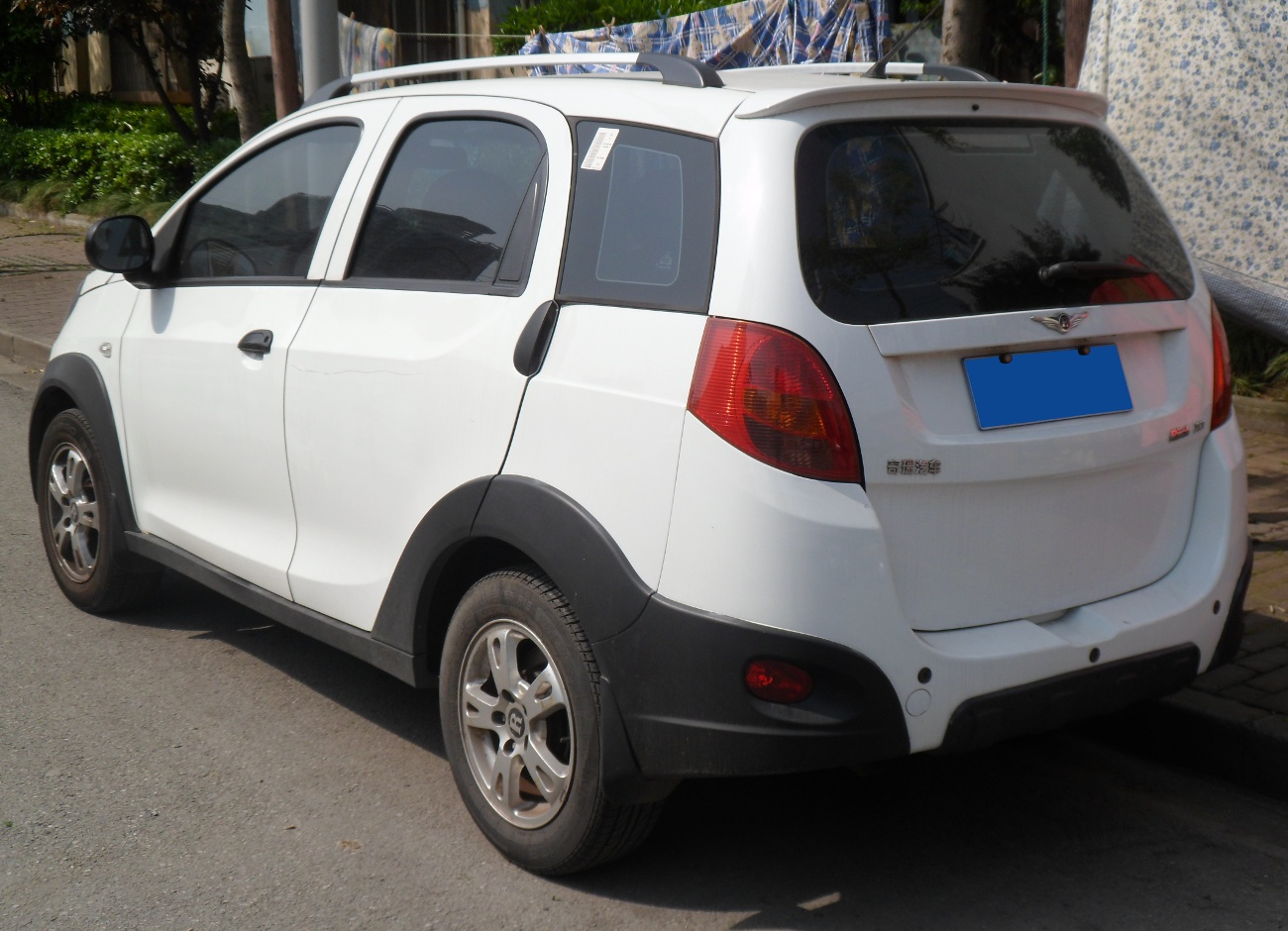 Riich X1 photographed in Shanghai, China.